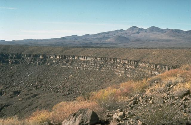 The Pinacate volcanic field is a roughly 55 x 60 km area containing numerous maars, tuff rings, and cinder cones in NW México near the head of the Gulf of California. The crater rim in the center of the photo is that of Crater Elegante, a 1.6-km-wide maar. Part of El Pinacate y Gran Desierto de Altar Biosphere Reserve — Sonora.